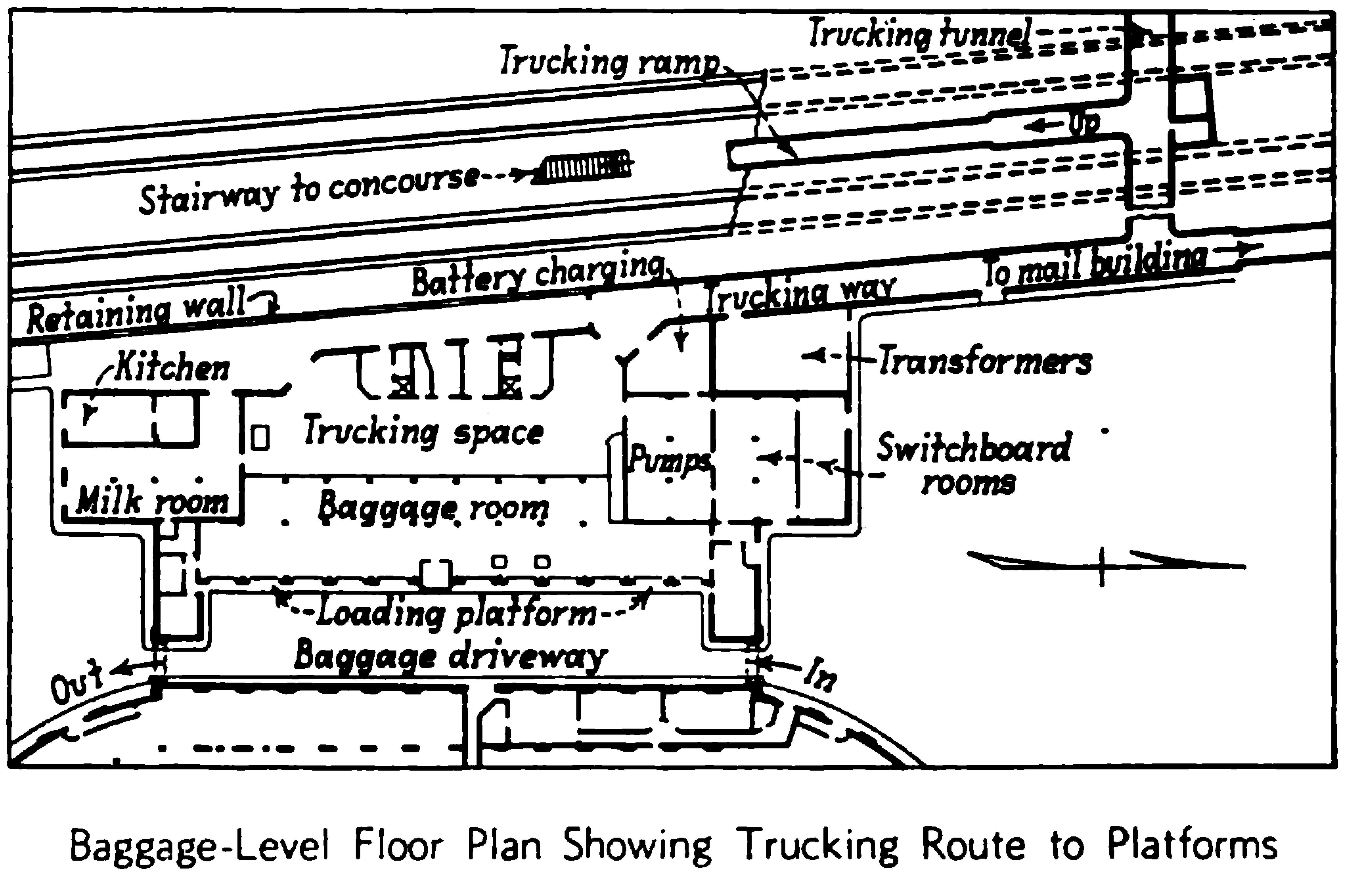 Cincinnati Union Terminal as depicted in Railway Age.